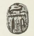 Scarab inscribed with the name of the Fifth Dynasty pharaoh Unas but dating to the New Kingdom or later.